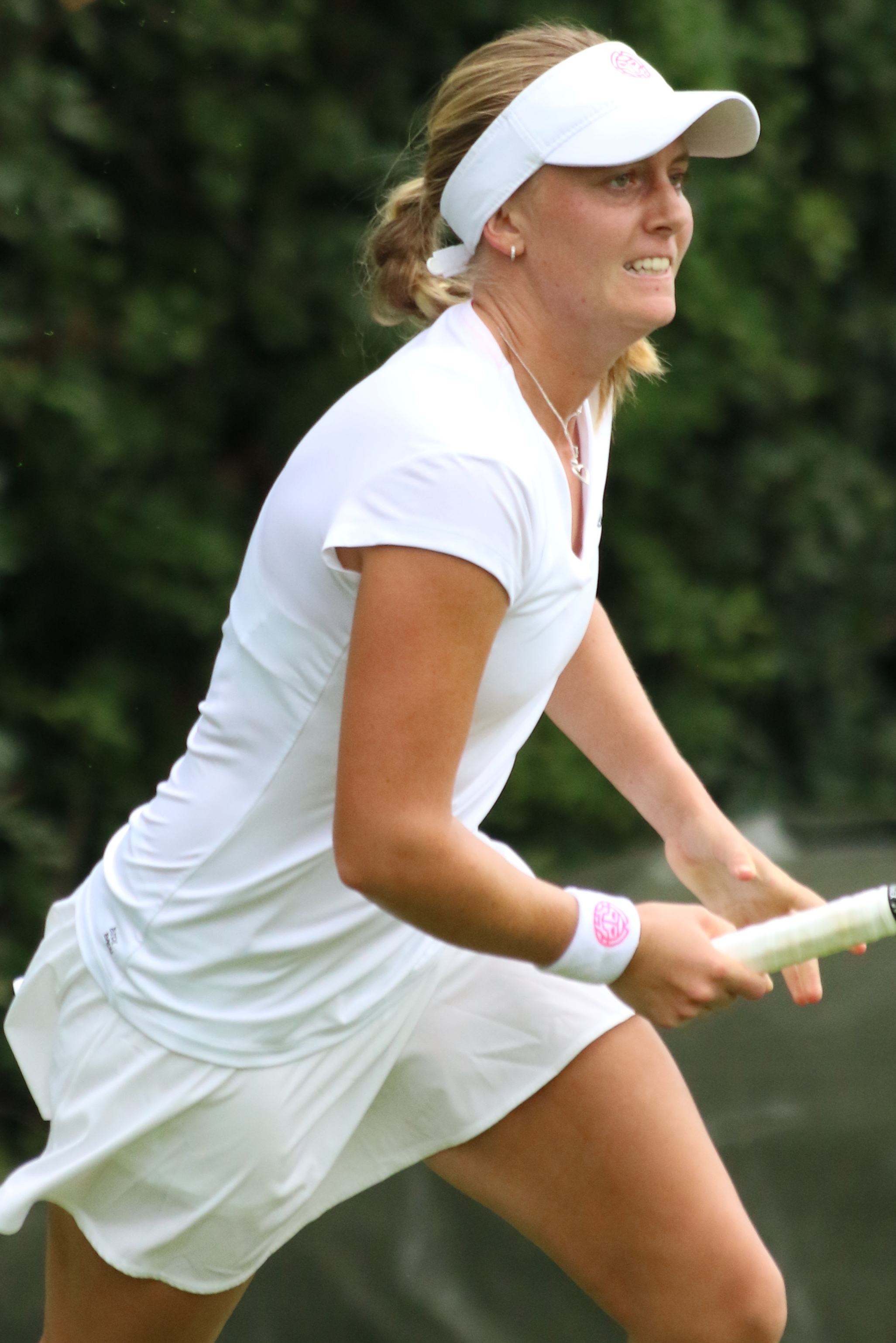 2019 Wimbledon Qualifying Tournament.